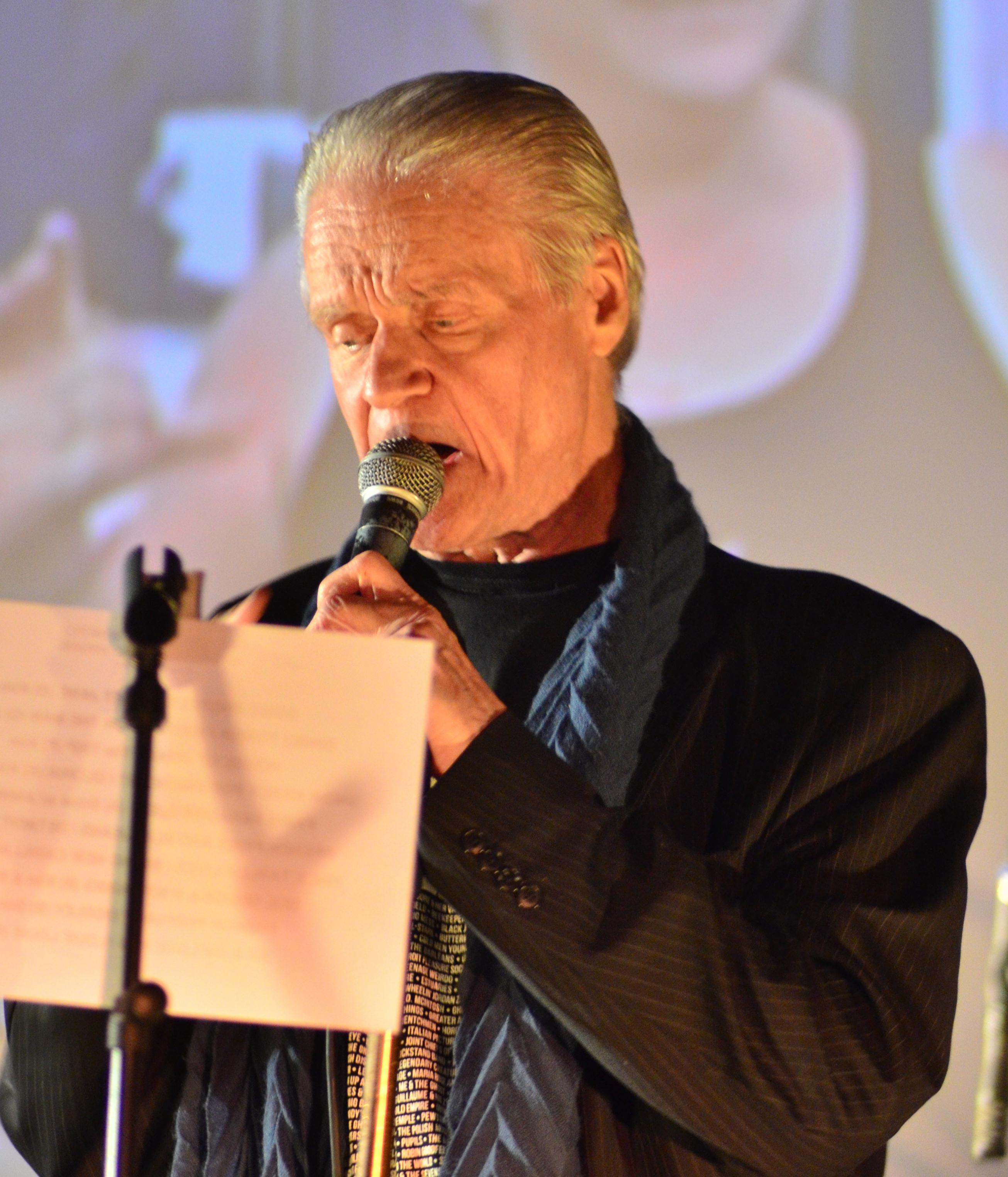 Kim Fowley at rock for sonic protest 2012, paris, eglise st merri.